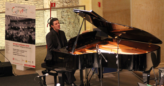 Sept Concert in Rome